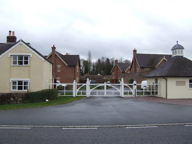 Gate house and lodge at Cound Hall, near to Cound, Shropshire, Great Britain. There is new prestigious housing on eithr side of the drive. View south of the A458 Bridgnorth road.